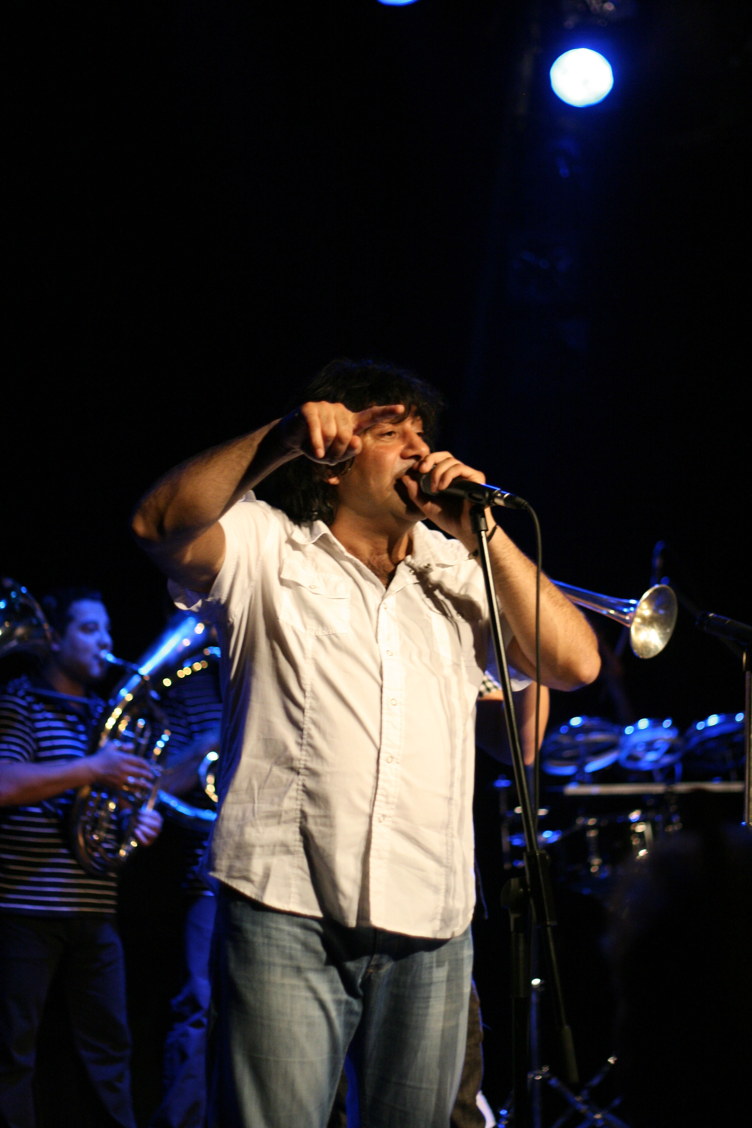 Boban Markovic in a concert Heidelberg Karlstorbahnhof